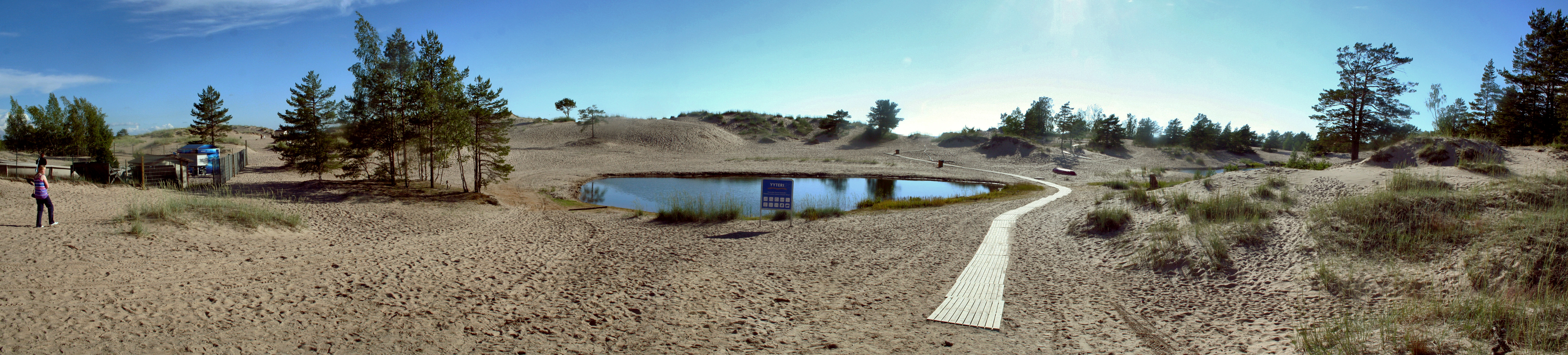 Yyteri beach at Pori, Finland